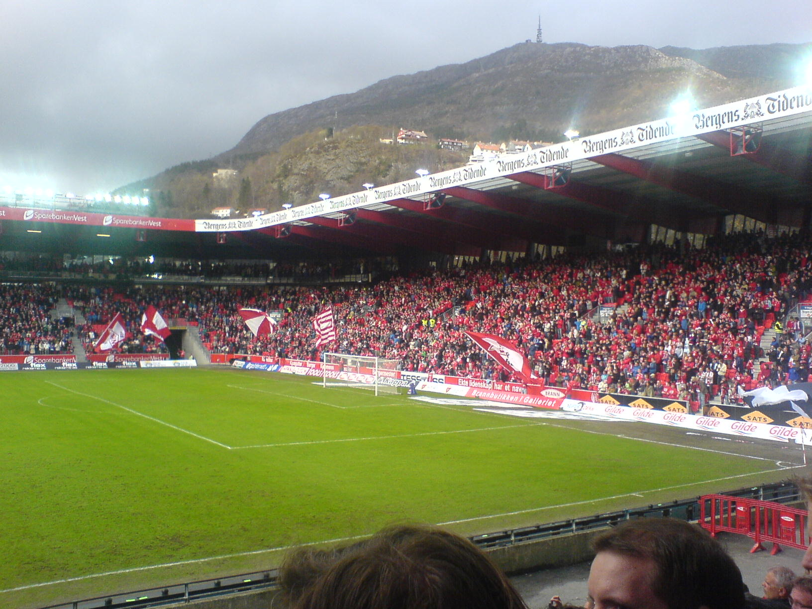 Brann Stadion, 16th of april 2007 (Brann vs. Strømsgodset 3-1)